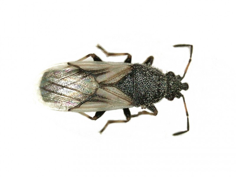 Metopoplax ditomoides (Lygaeidae) - (imago), Elst (Gld) - De Park, the Netherlands